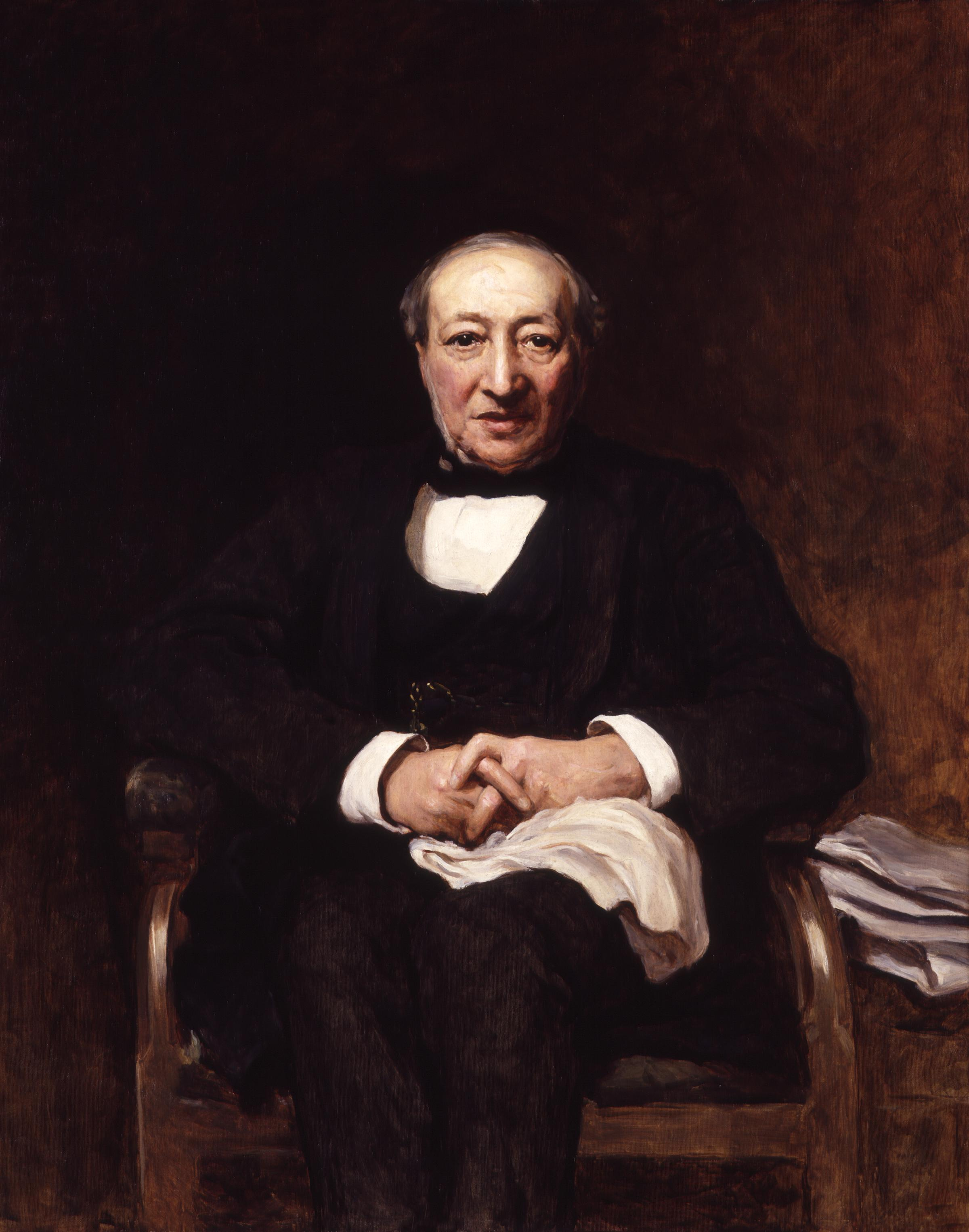 Joseph Moses Levy, by Sir Hubert von Herkomer (died 1914). All images in this batch have been confirmed as author died before 1939 according to the official death date listed by the NPG.